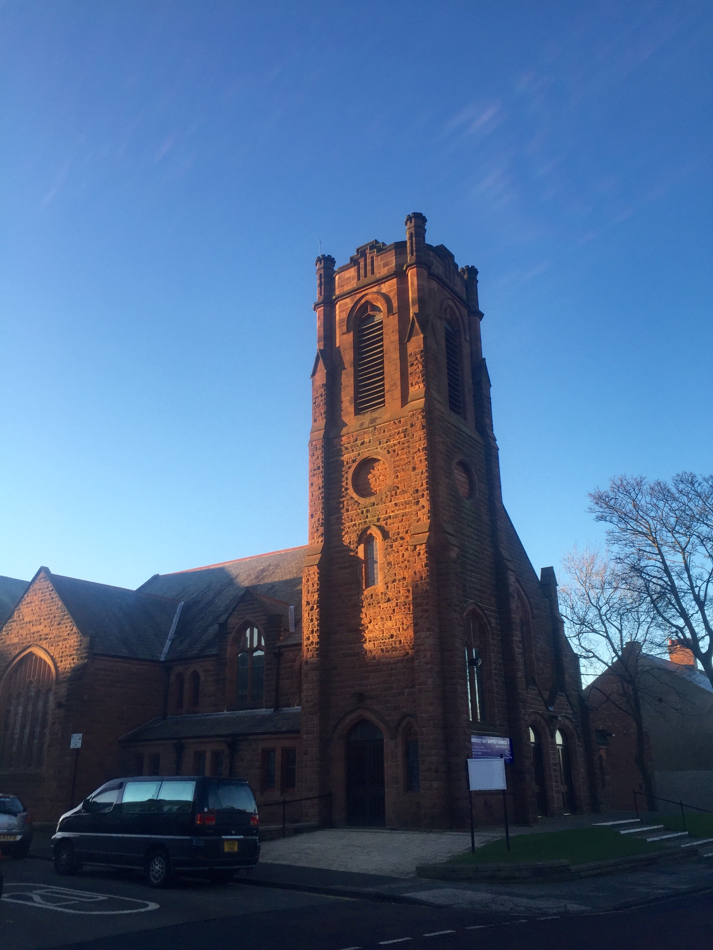 Church